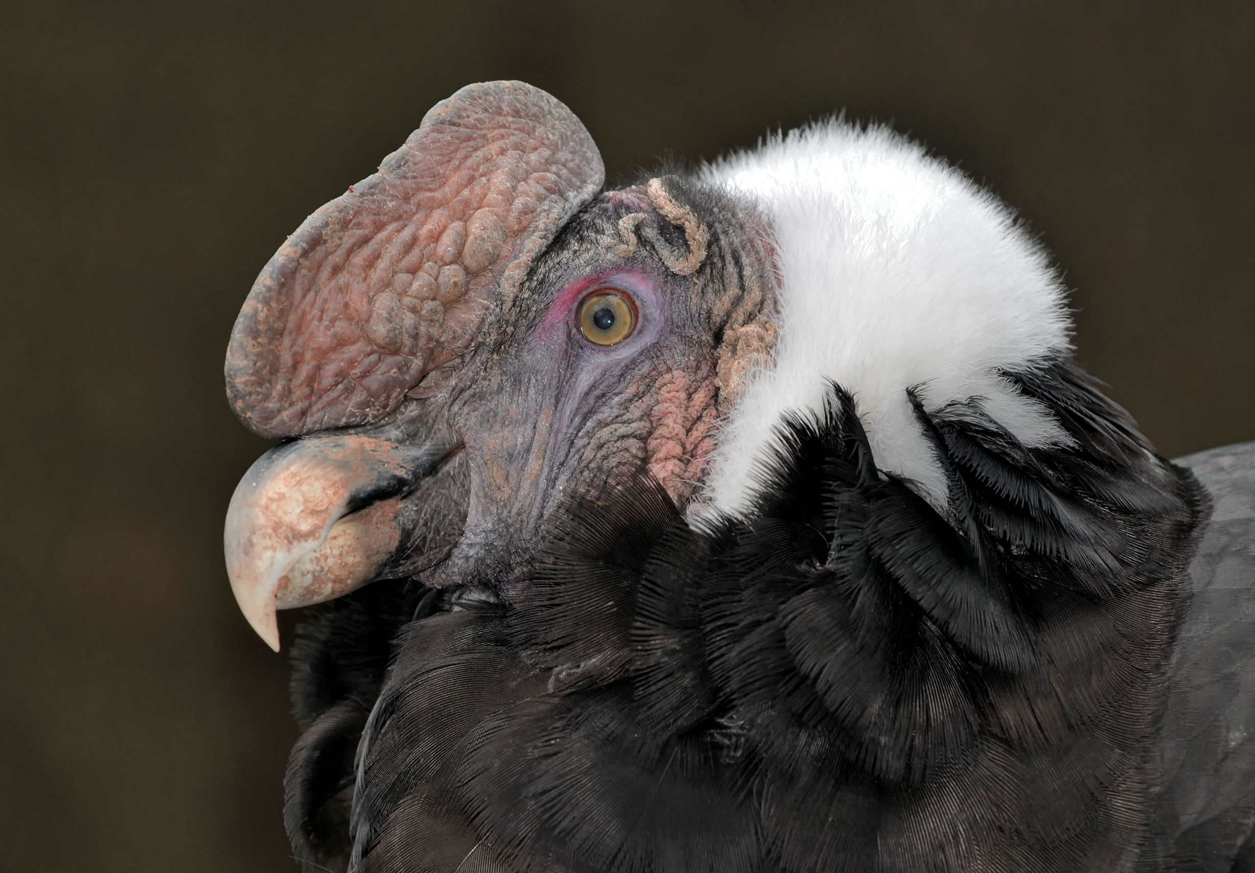 Head by the Andean condor (Vultur gryphus) in Hanover Zoo.